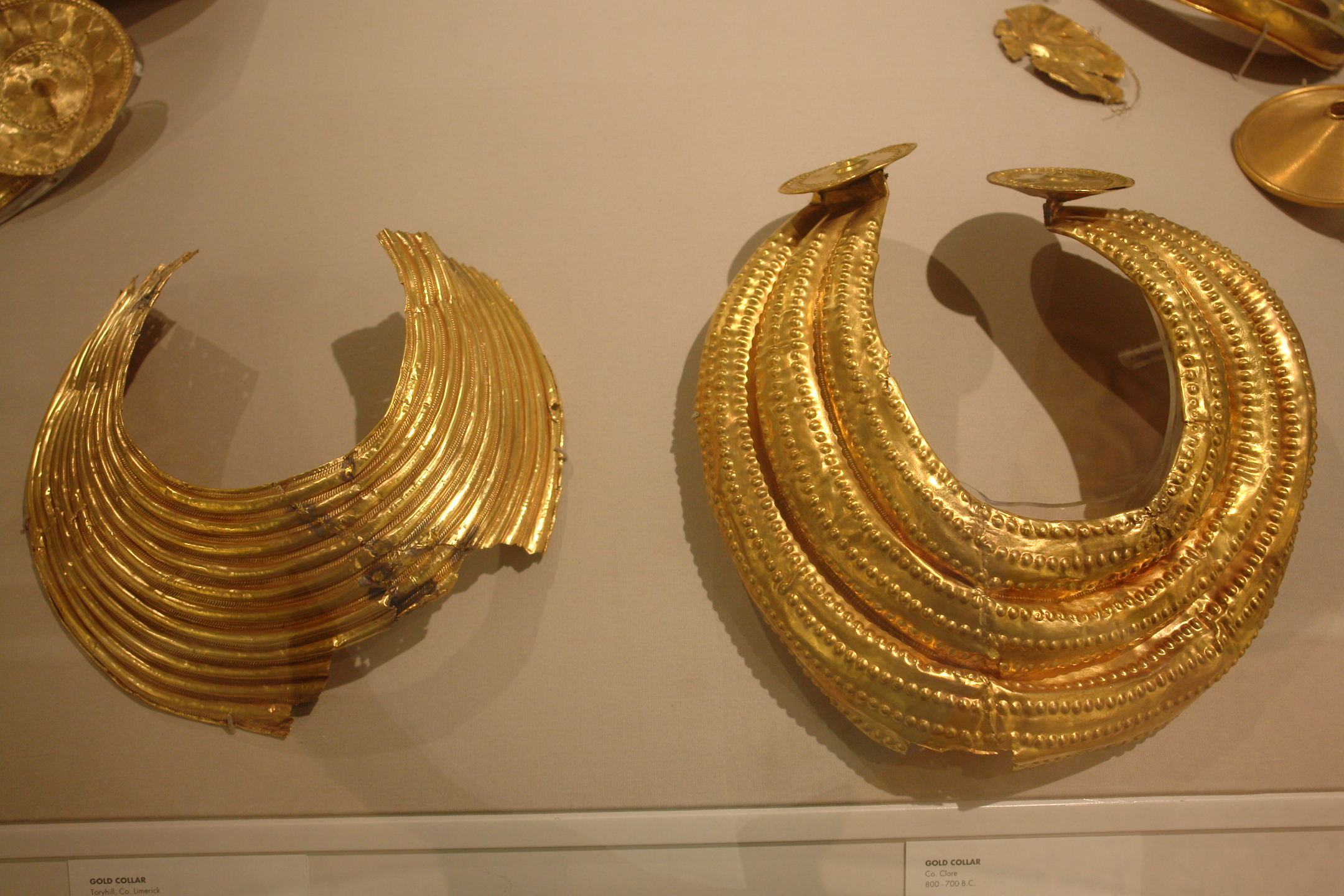 Artefact in the National Museum of Ireland, Kildare Street, Dublin, Ireland